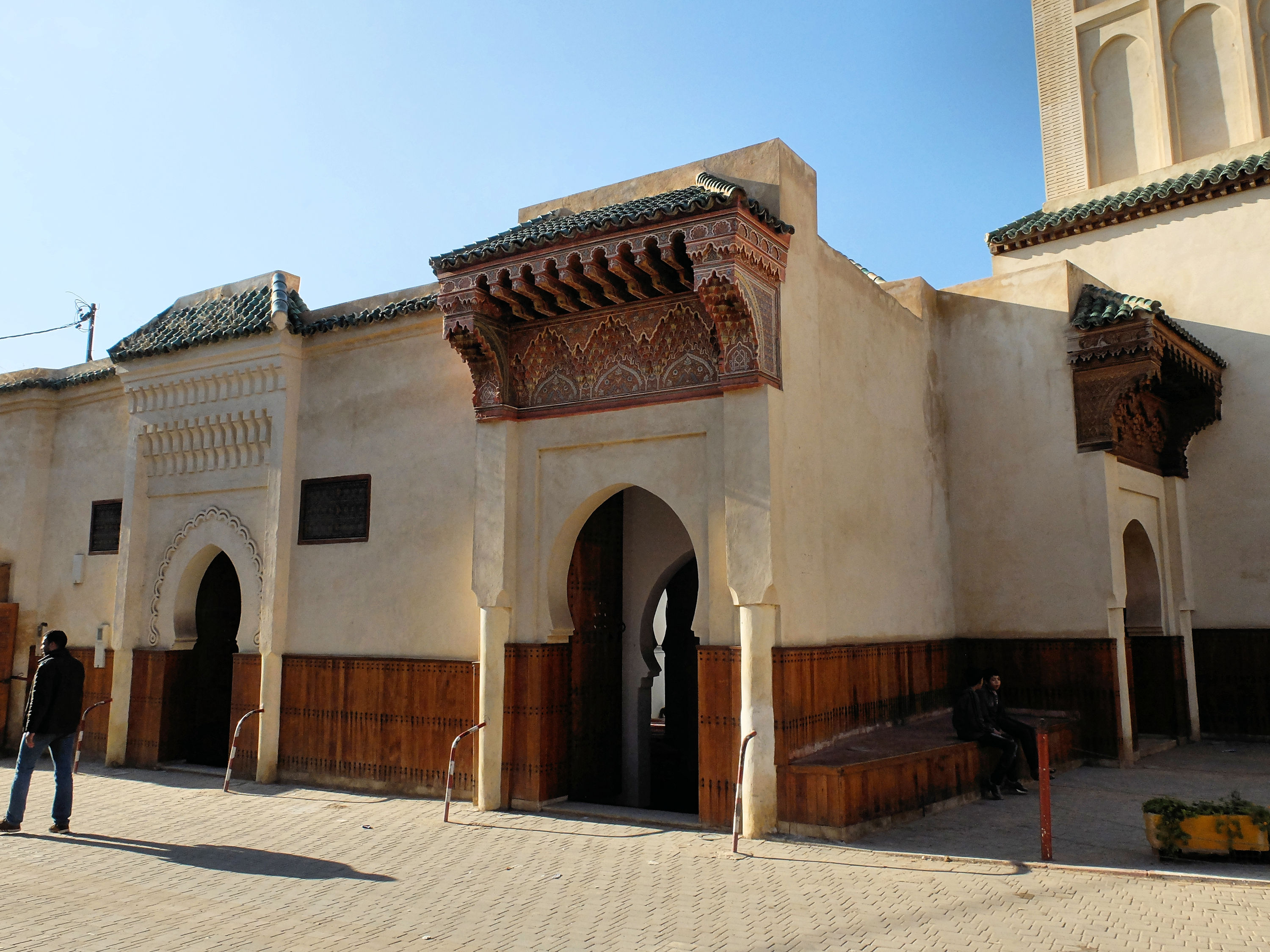 Bab Berdain Mosque in Meknes.